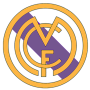 Logo of Spanish club Real Madrid, released in 1931. It would be replaced only ten years later.